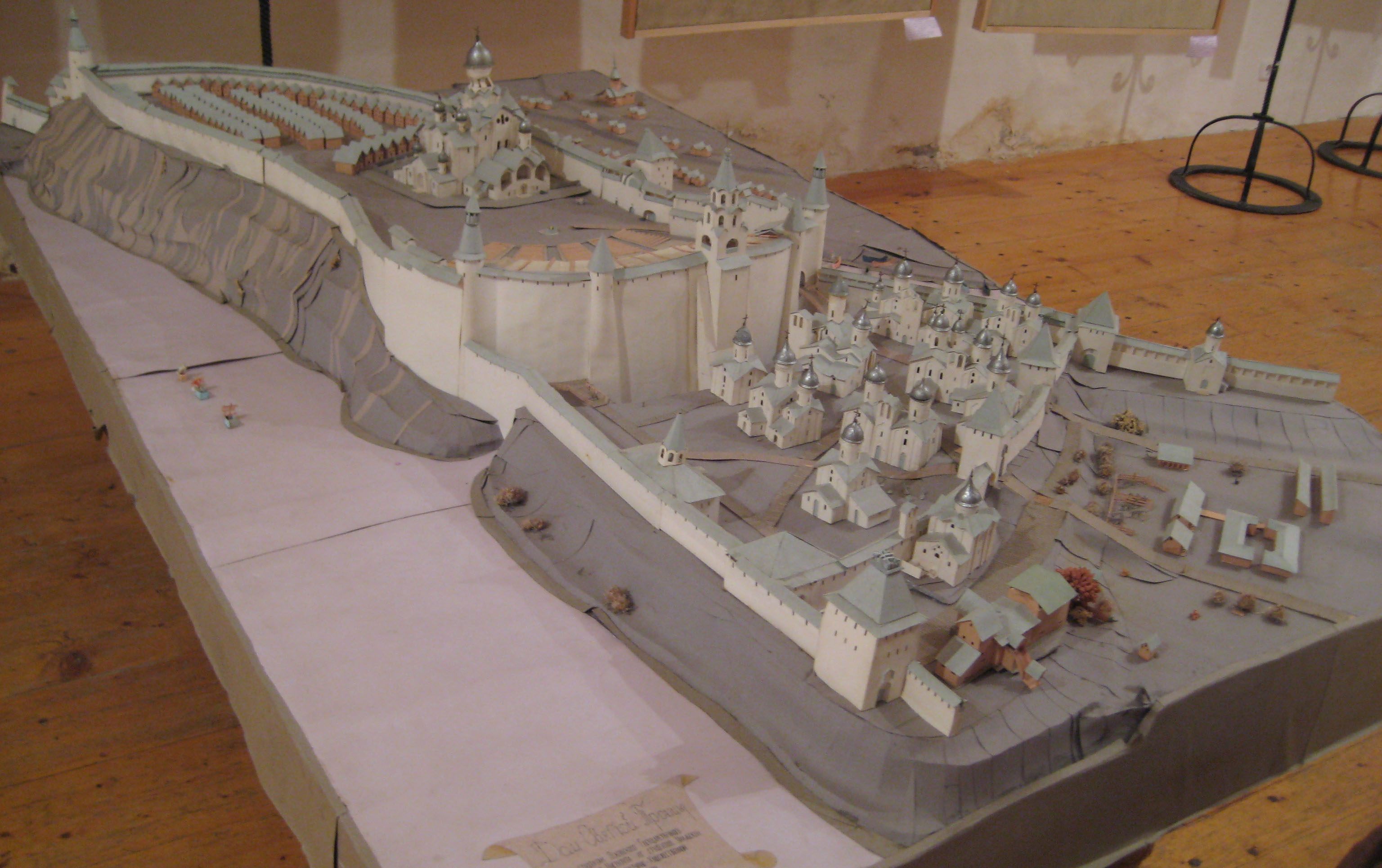 A model of ancient Pskov with preceding building of the cathedral